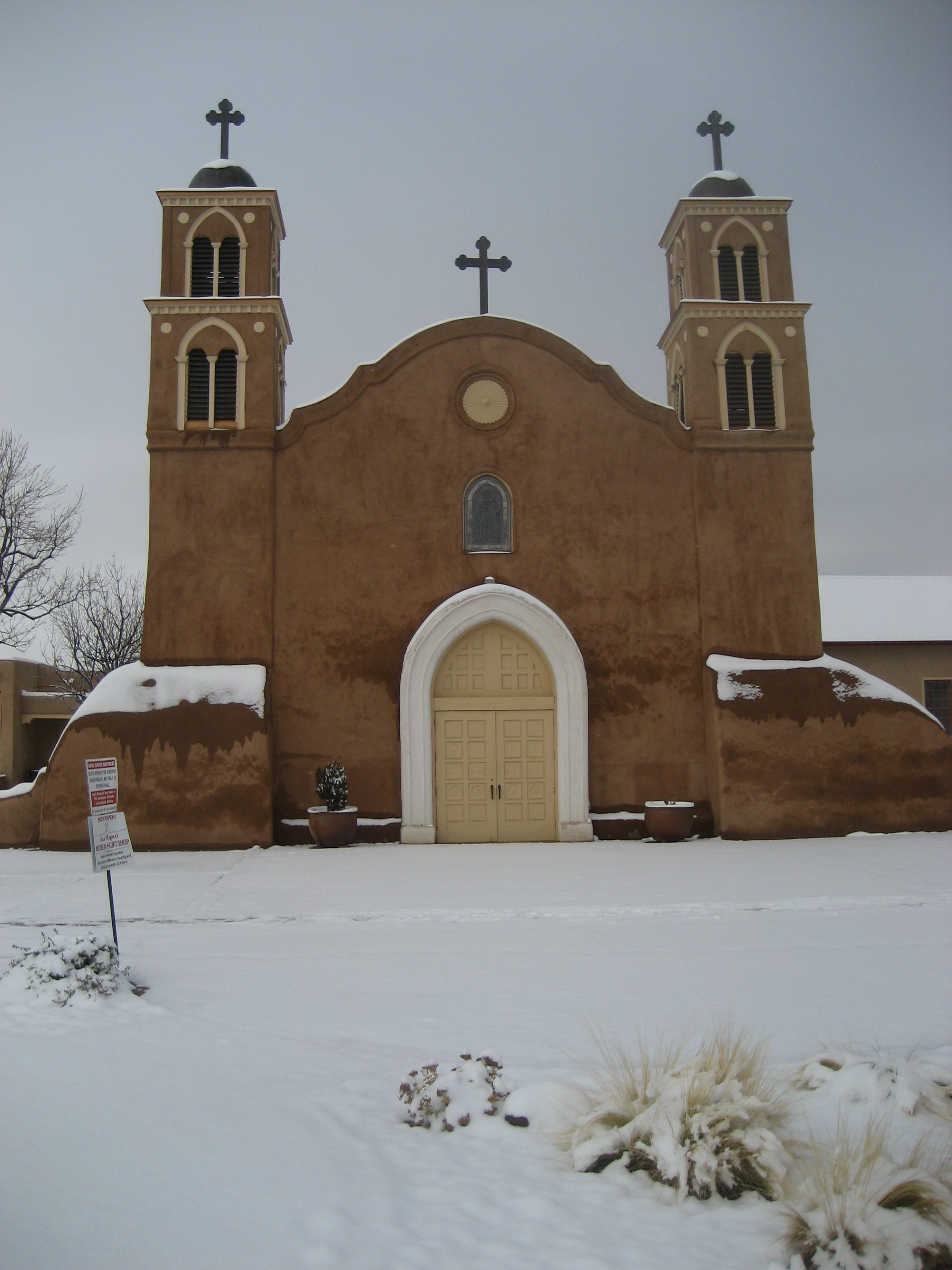 Front view of San Miguel de Socorro Church, Socorro, New Mexico, USA (Nov 2013).